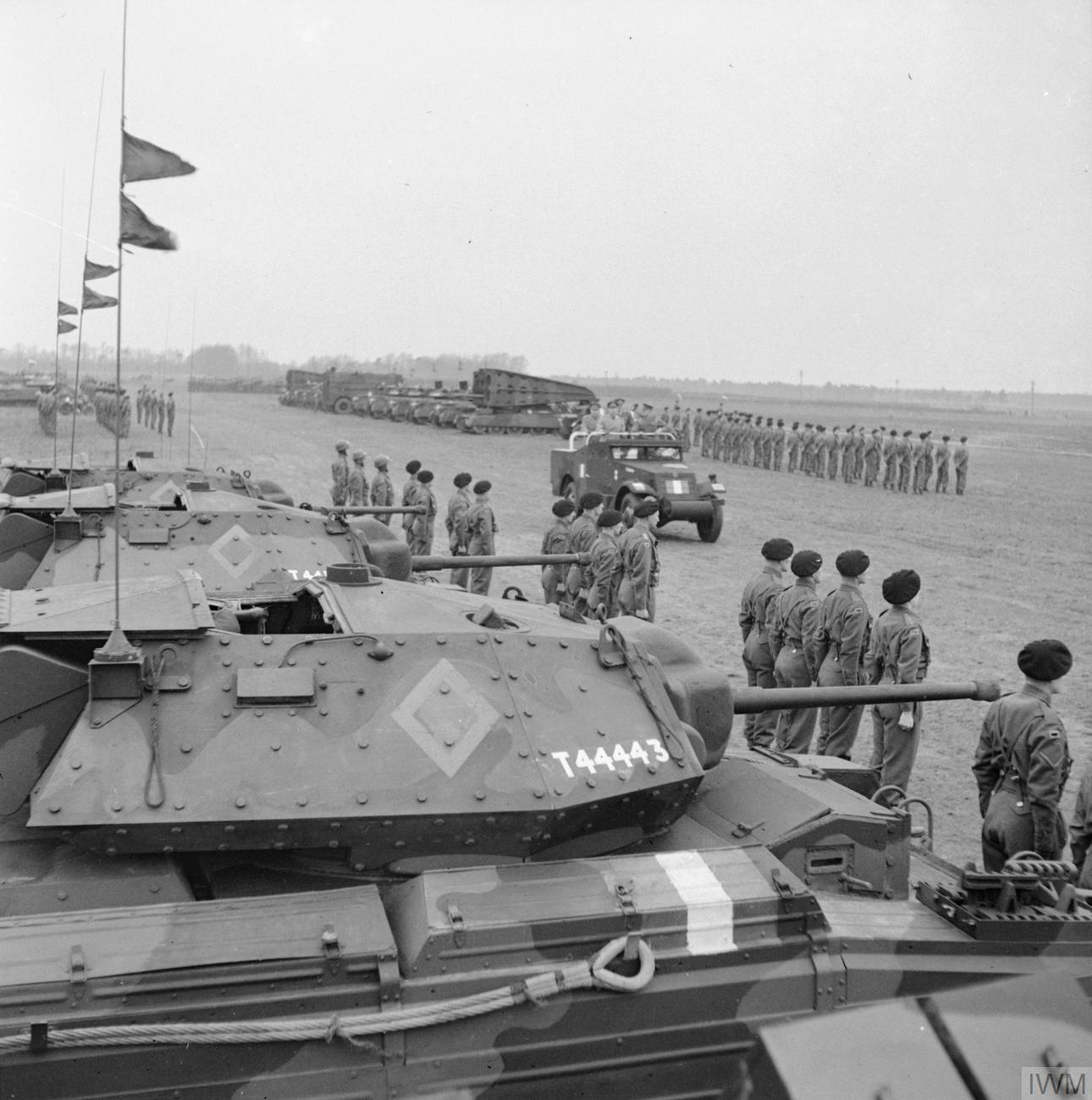 The British Army in the United Kingdom 1939-45 The King, riding in a White scout car, inspecting Crusader tanks of 11th Armoured Division in Eastern Command, 25 January 1943.